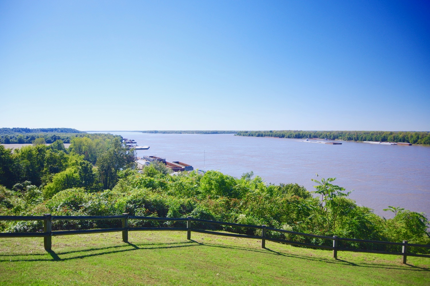 The Mississippi River, looking south from Columbus-Belmont State Park in Columbus, Kentucky, United States.